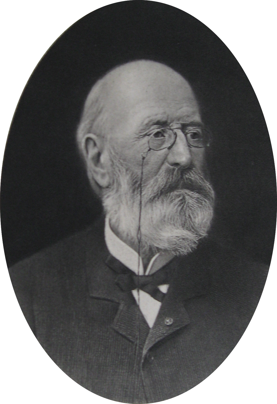 Portrait of Jean-Félix Bapterosses French inventor and industry tycoon. Founder of émaux de Briare manufactory